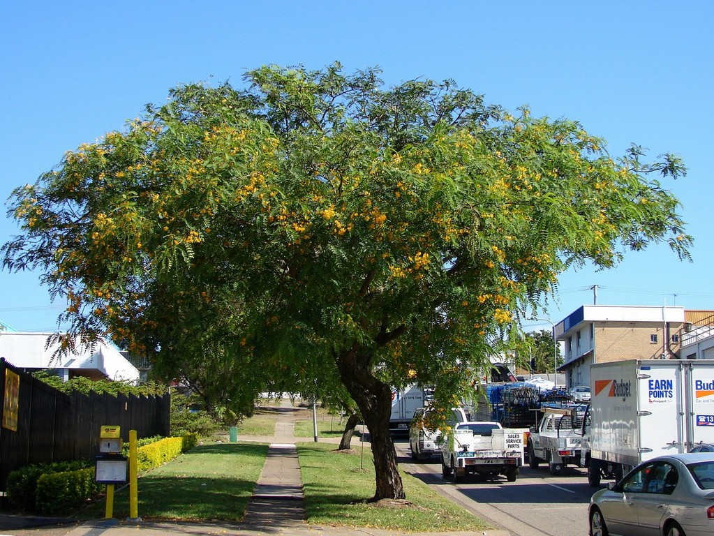 Tipuana tipu , the Pride of Bolivia tree - native to South America, flowering beside the busy street of Brisbane, Australia. The plant is an invasive species in some habitats-regions of Australia.